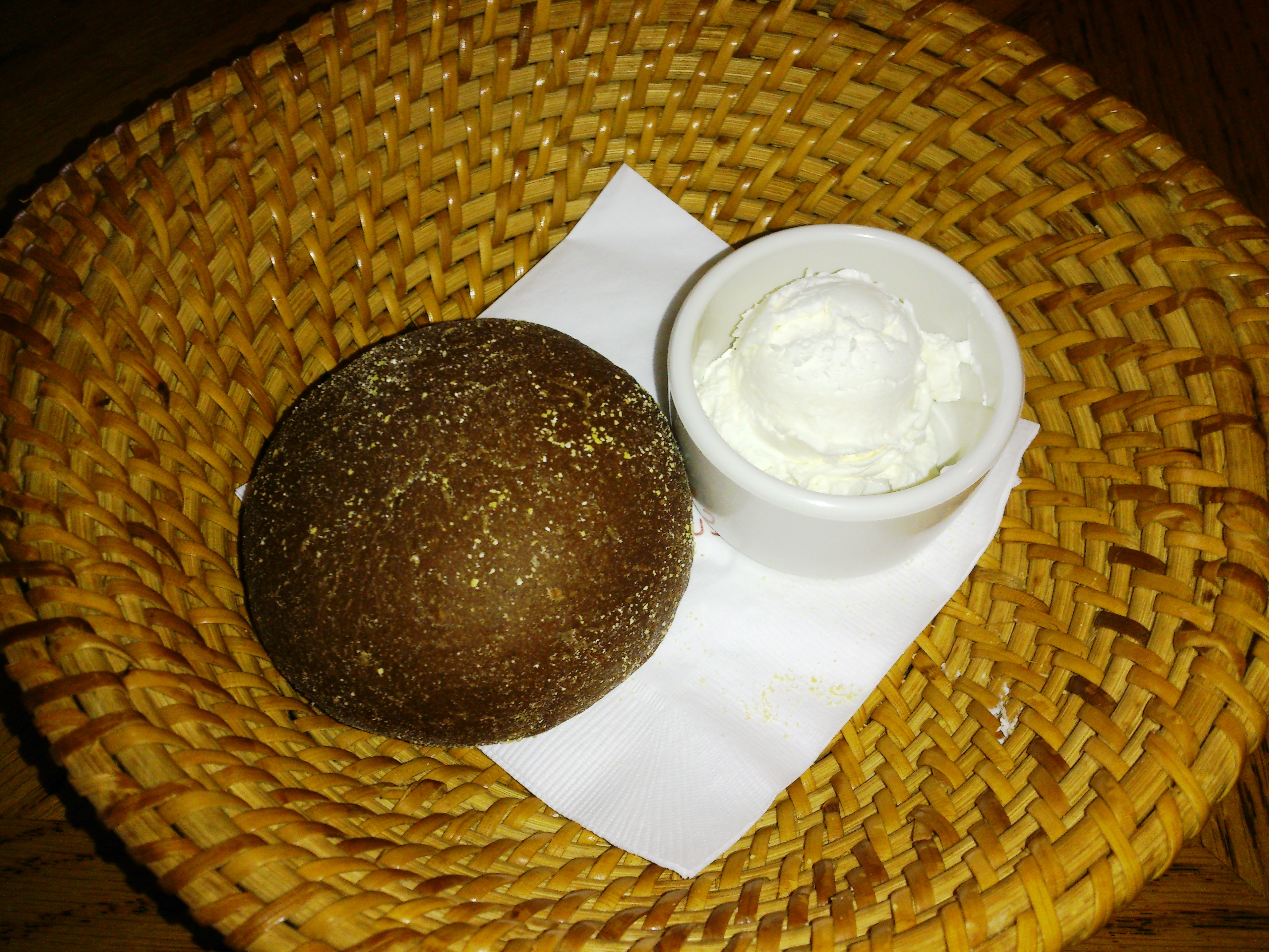 Honey Wheat Bread with Cream Chesse